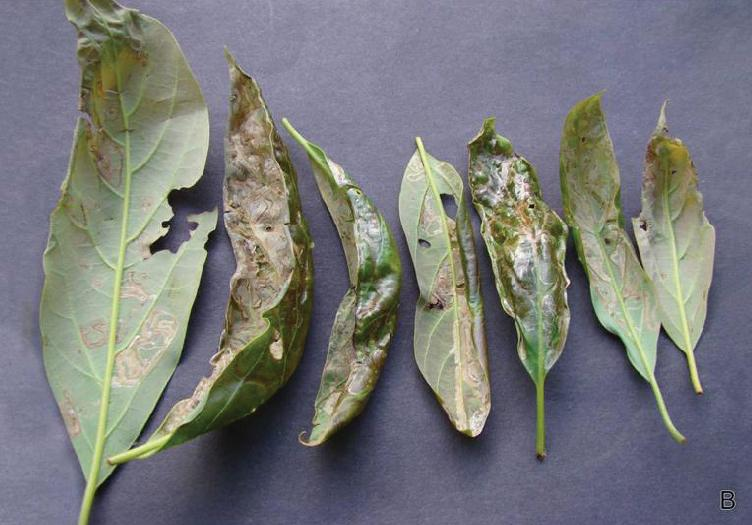 Phyllocnistis perseafolia, Leaf damage caused by upper and lower side larval mining